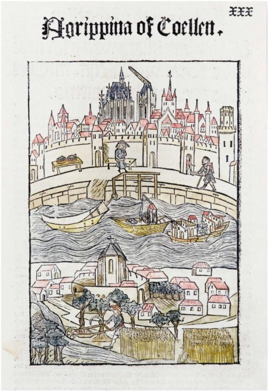 Image of the city "Agrippina or Cologne", taken from Die Cronica van der hilligen stat van Coellen by John Koelhoff the younger, published in 1499